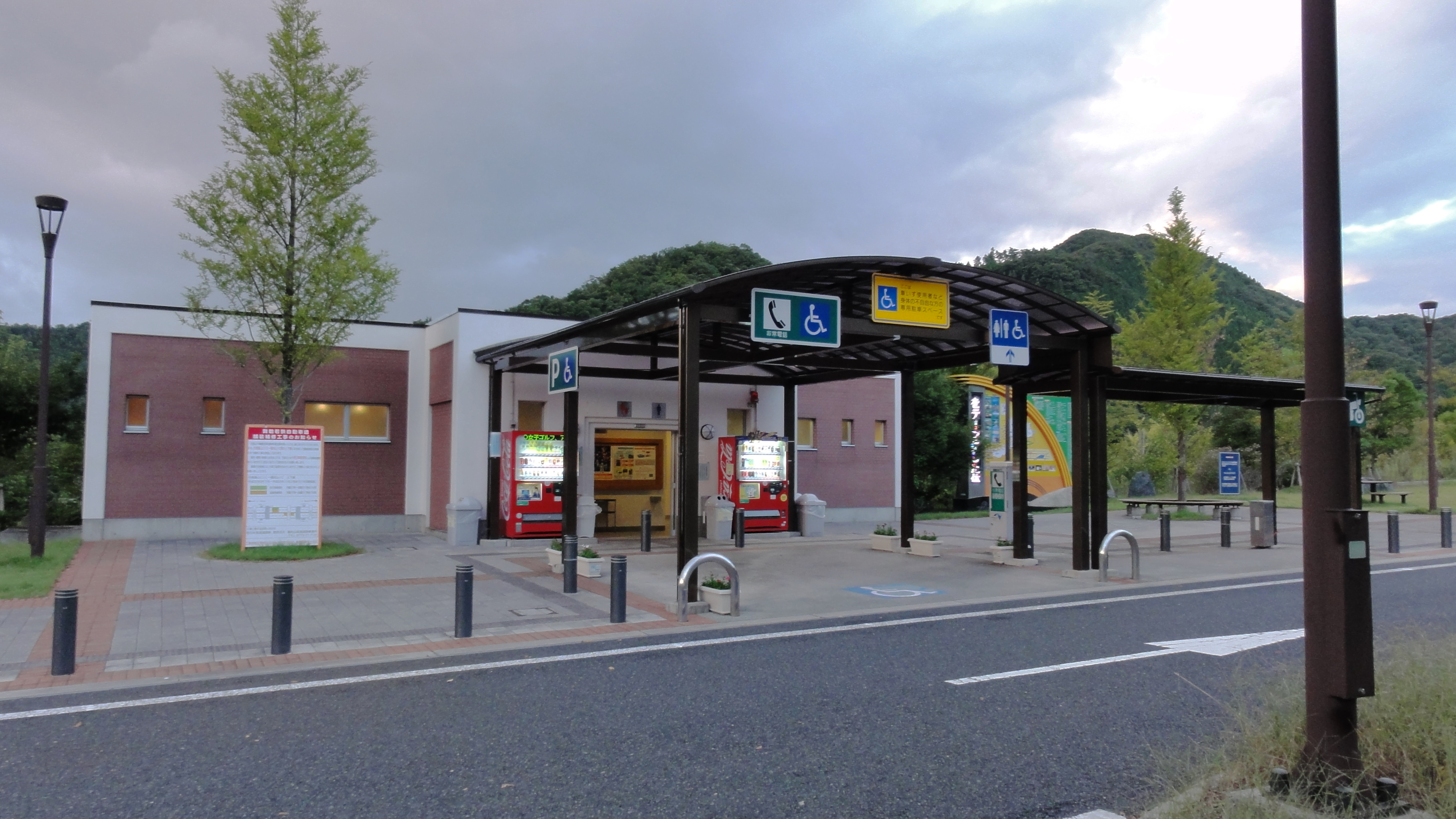 Maizuru Parking Area ,Kyoto prefecture, Japan